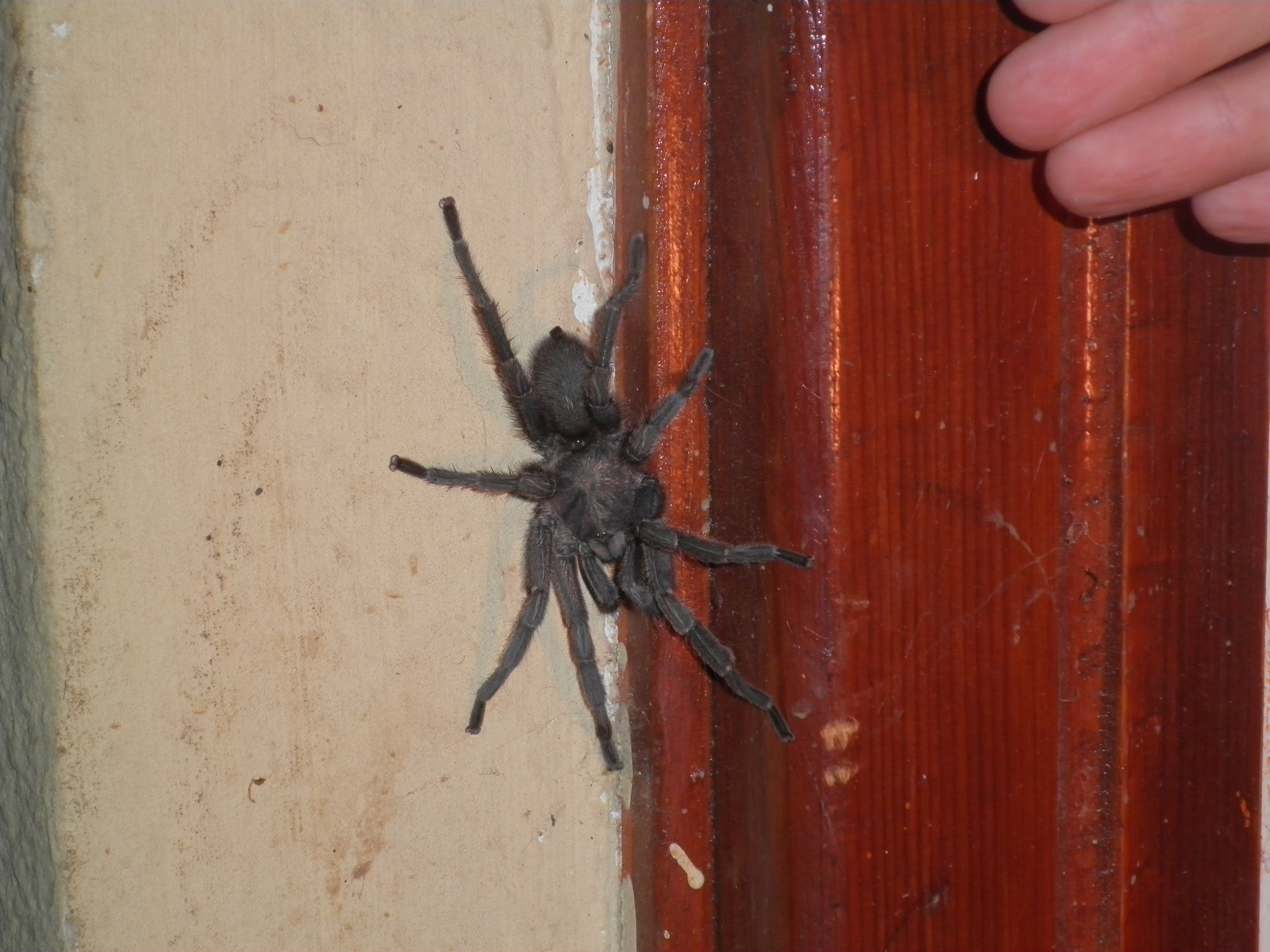 A Chaetopelma olivaceum spider from Galilee, Israel.